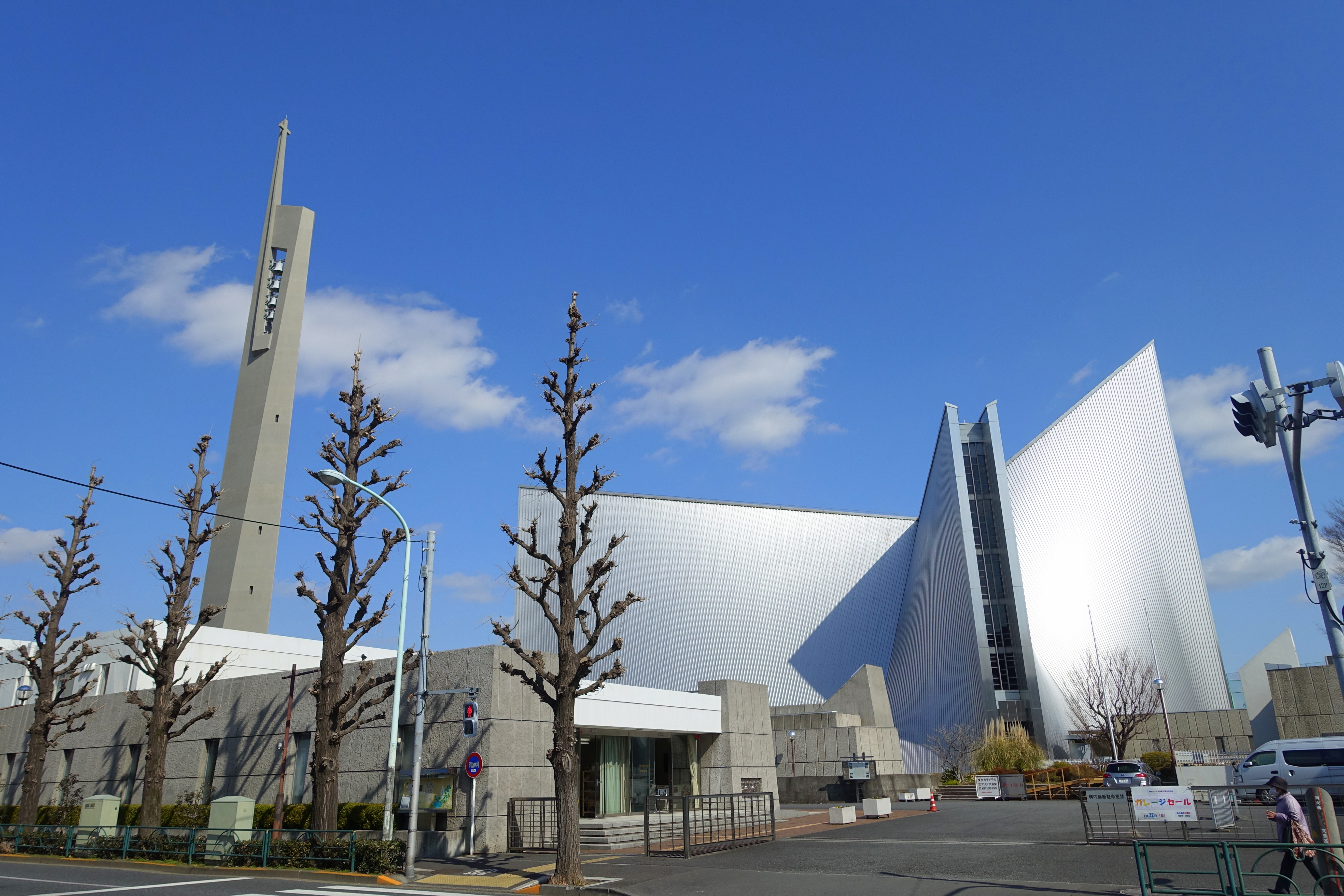 St. Mary's Cathedral, Tokyo, Japan.